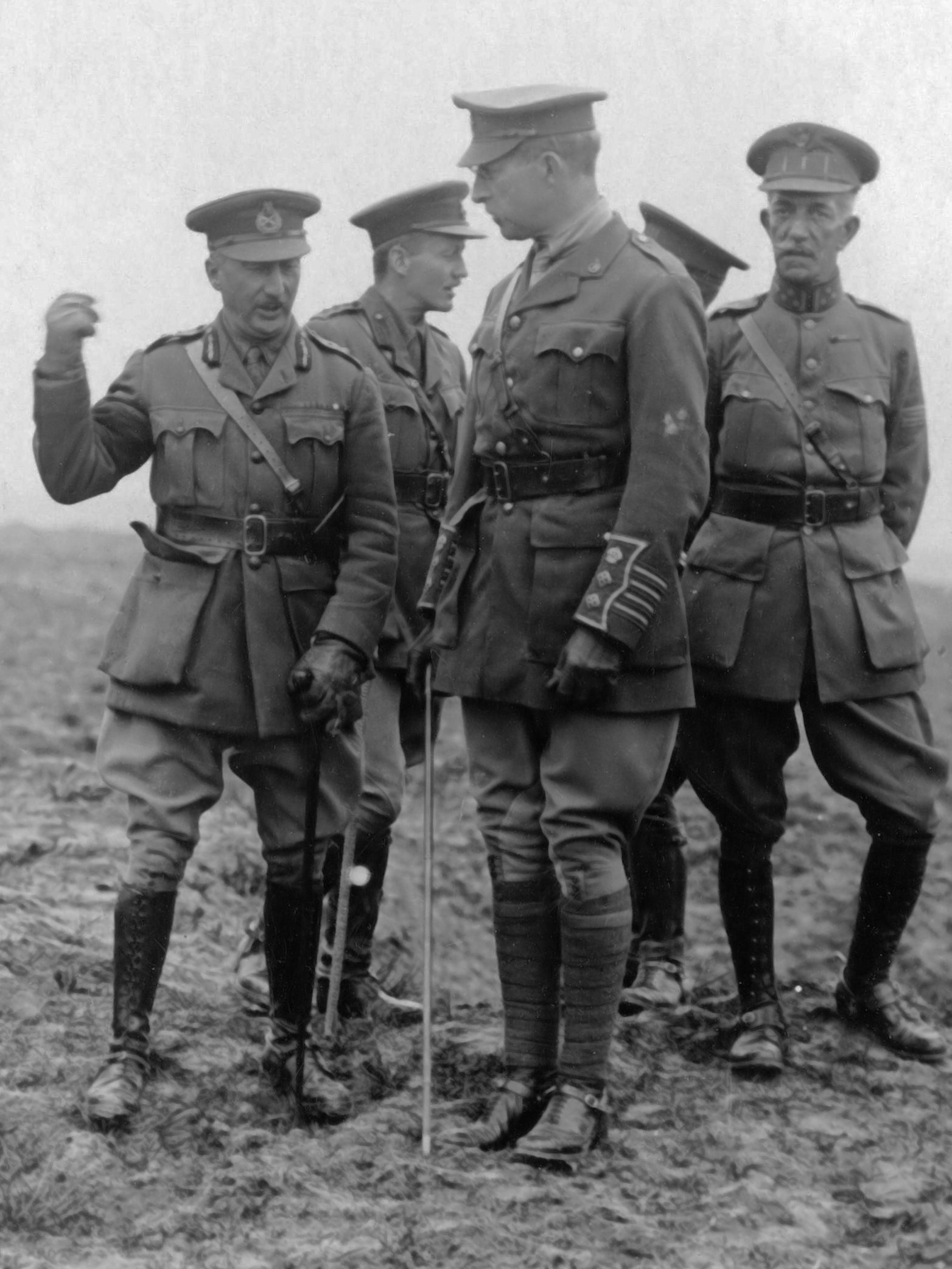 King of Belgians visits the western front. King of Belgians visits the western front 1914-1918